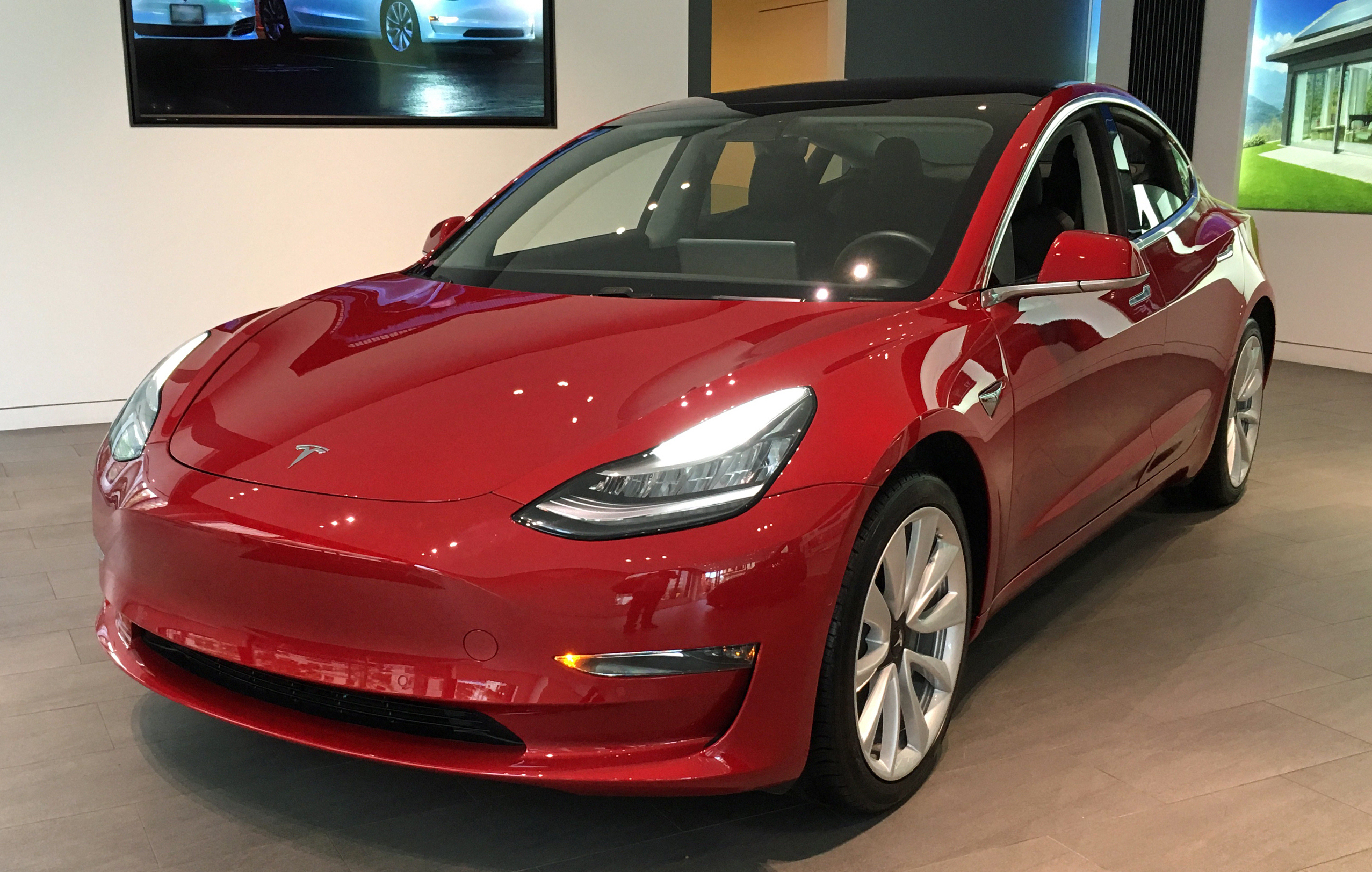 Tesla Model 3 exhibited at Tesla's showroom in Washington D.C.